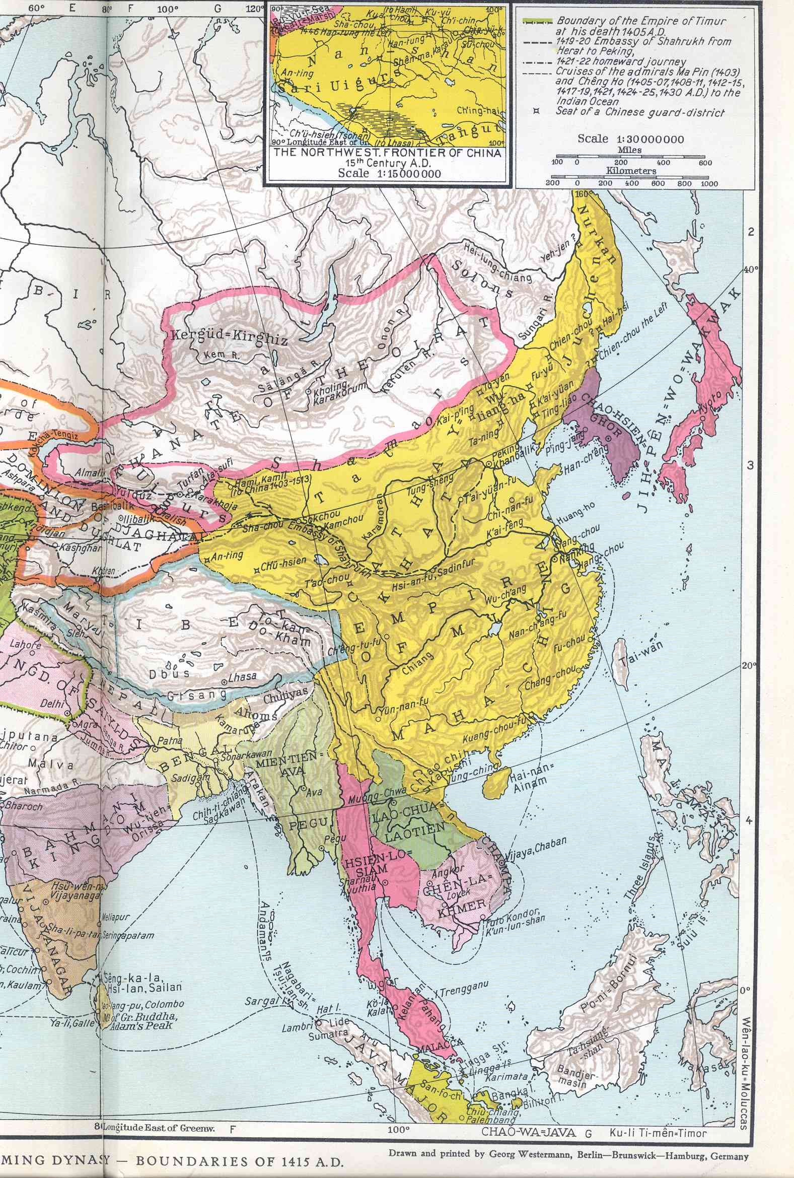 The Ming Empire (in yellow) under the Yongle Emperor, in the year 1415